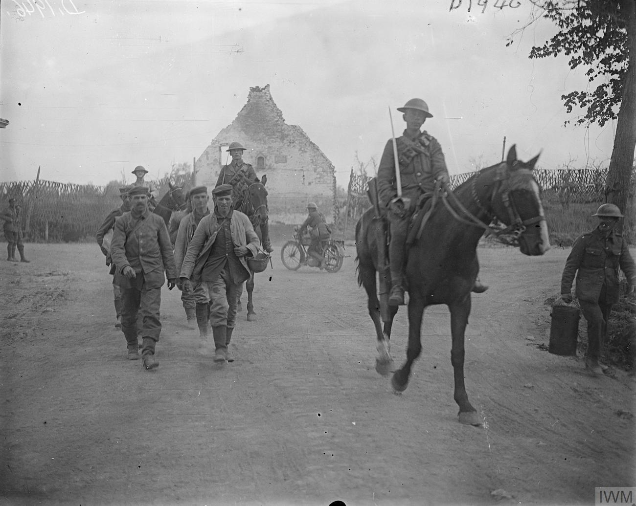 The Battle of Passchendaele, July-november 1917 Battle of Langemarck. Three cavalry men escorting a captured machine-gun crew who were buried by a shell-explosion in a dug-out. Brielen, 19 August, 1917.